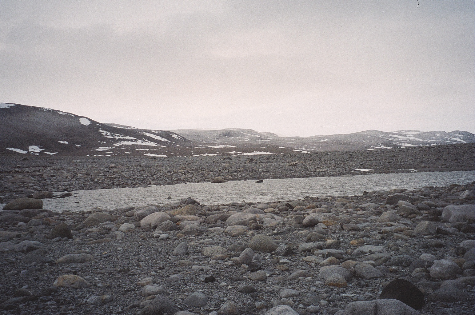 A view looking out over Inexpressible Island